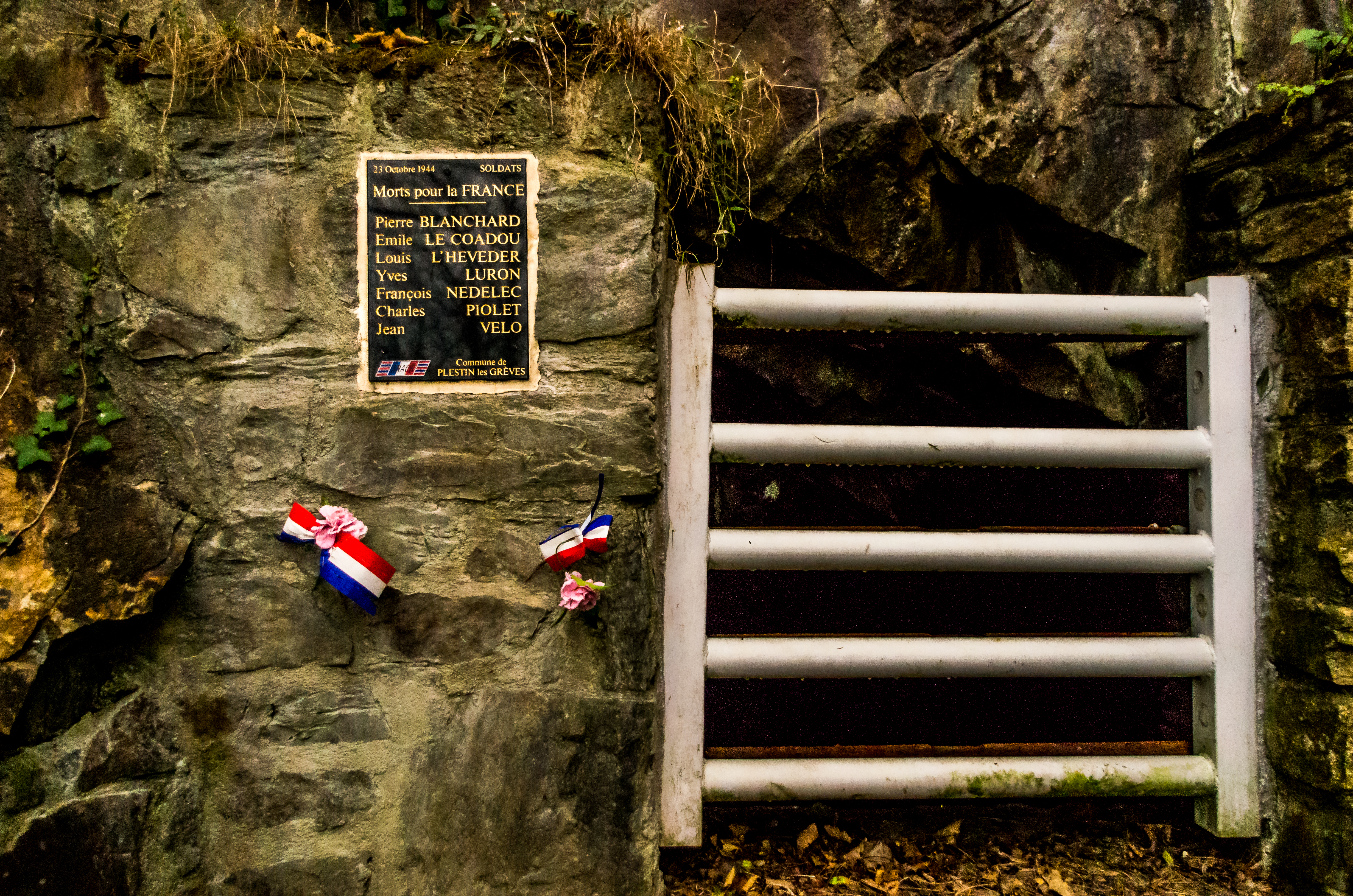 List of children who died were unaware of landmines, playing around bombs planted by enemy forces. Plestin-les-Grèves